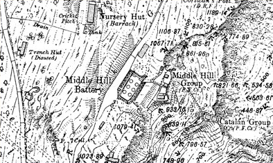 Section of 1908 Ordnance Survey map of Middle Hill Battery in Gibraltar.